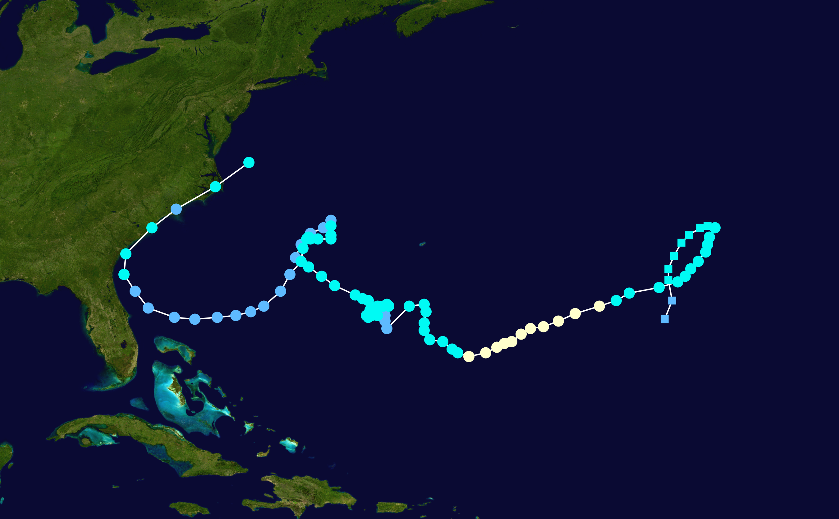 Track map of Hurricane Kyle of the 2002 Atlantic hurricane season. The points show the location of the storm at 6-hour intervals. The colour represents the storm's maximum sustained wind speeds as classified in the Saffir–Simpson scale (see below), and the shape of the data points represent the nature of the storm, according to the legend below. Saffir–Simpson scale Tropical depression≤38 mph≤62 km/h Category 3111–129 mph178–208 km/h Tropical storm39–73 mph63–118 km/h Category 4130–156 mph209–251 km/h Category 174–95 mph119–153 km/h Category 5≥157 mph≥252 km/h Category 296–110 mph154–177 km/h Unknown Storm type Tropical cyclone Subtropical cyclone Extratropical cyclone / Remnant low / Tropical disturbance / Monsoon depression